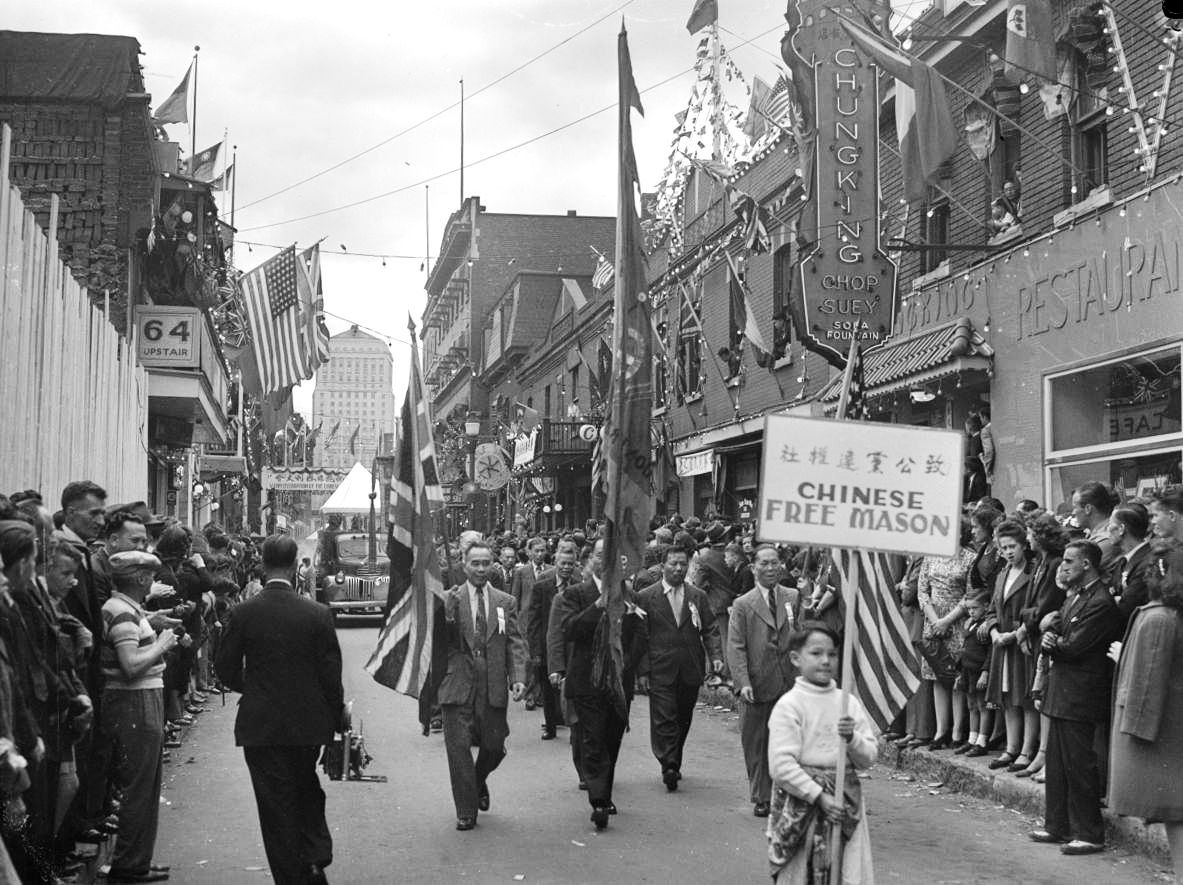 Montreal's Chinese community celebrates V-J Day and the official surrender of Japan with a parade in Chinatown.